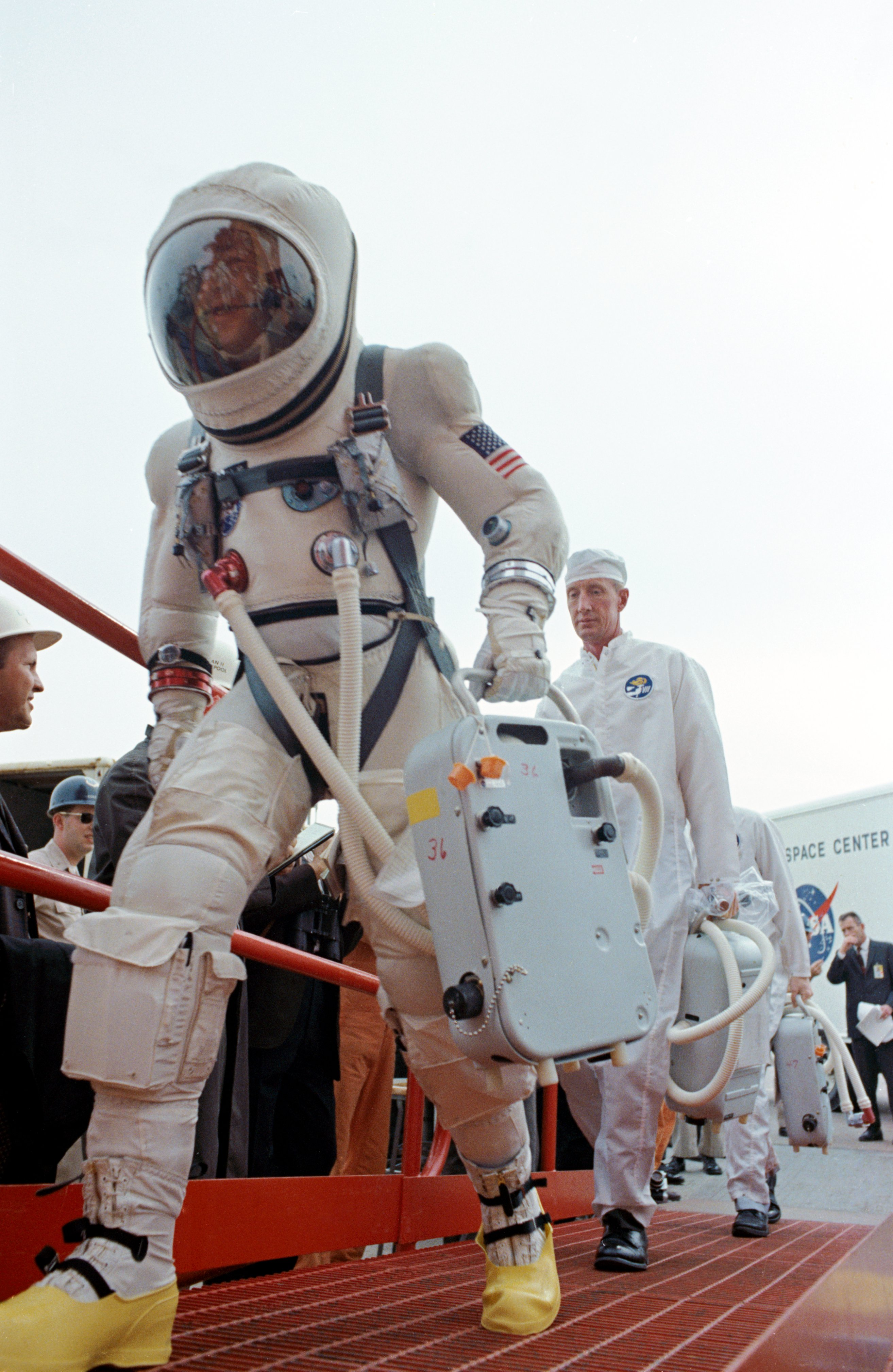 Astronaut James A. Lovell Jr., pilot for the National Aeronautics and Space Administration Gemini-7 spaceflight, walks to the elevator at Pad 19 one hour and 40 minutes before launch of the spacecraft. Moments later astronauts Lovell and Frank Borman, command pilot, rode the elevator to the White Room where they were inserted into the spacecraft to await the final moments of the countdown. Gemini G5C Spacesuit.